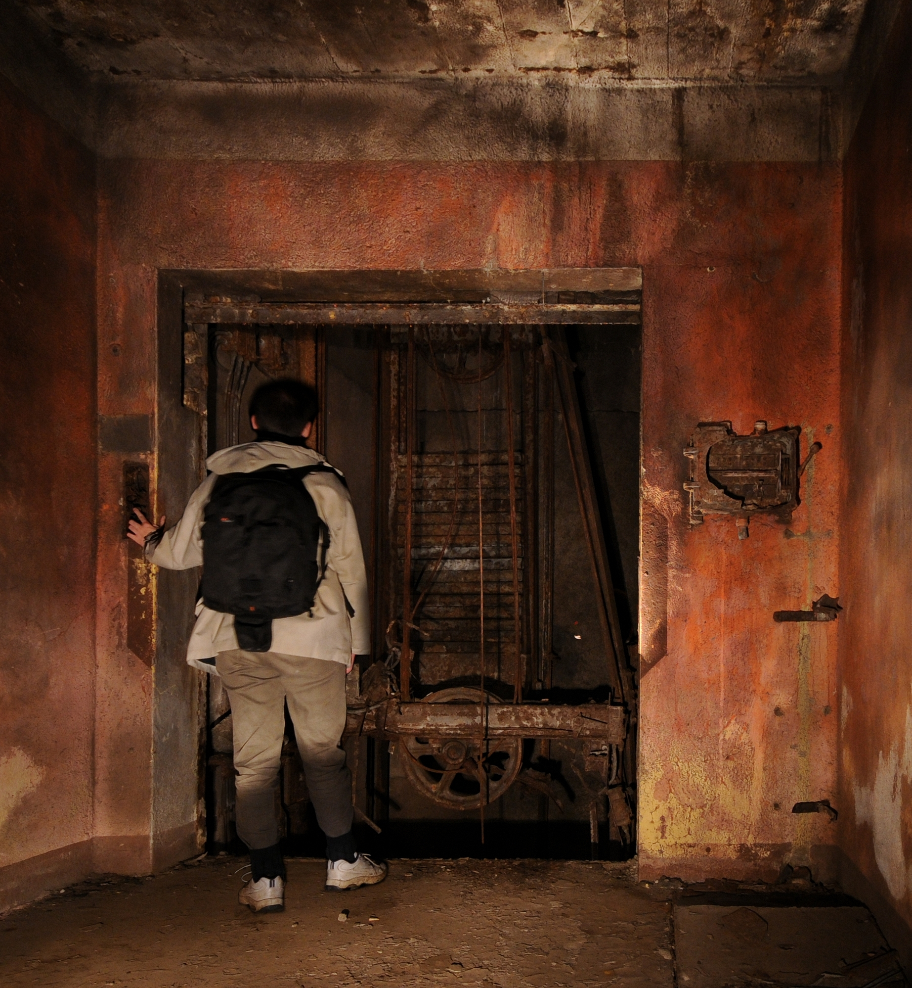 This photograph was taken with a Nikon D300 Moi, voulant prendre l'ascenceur. Salbert hill fortifications. Old NATO station (lightpainting).